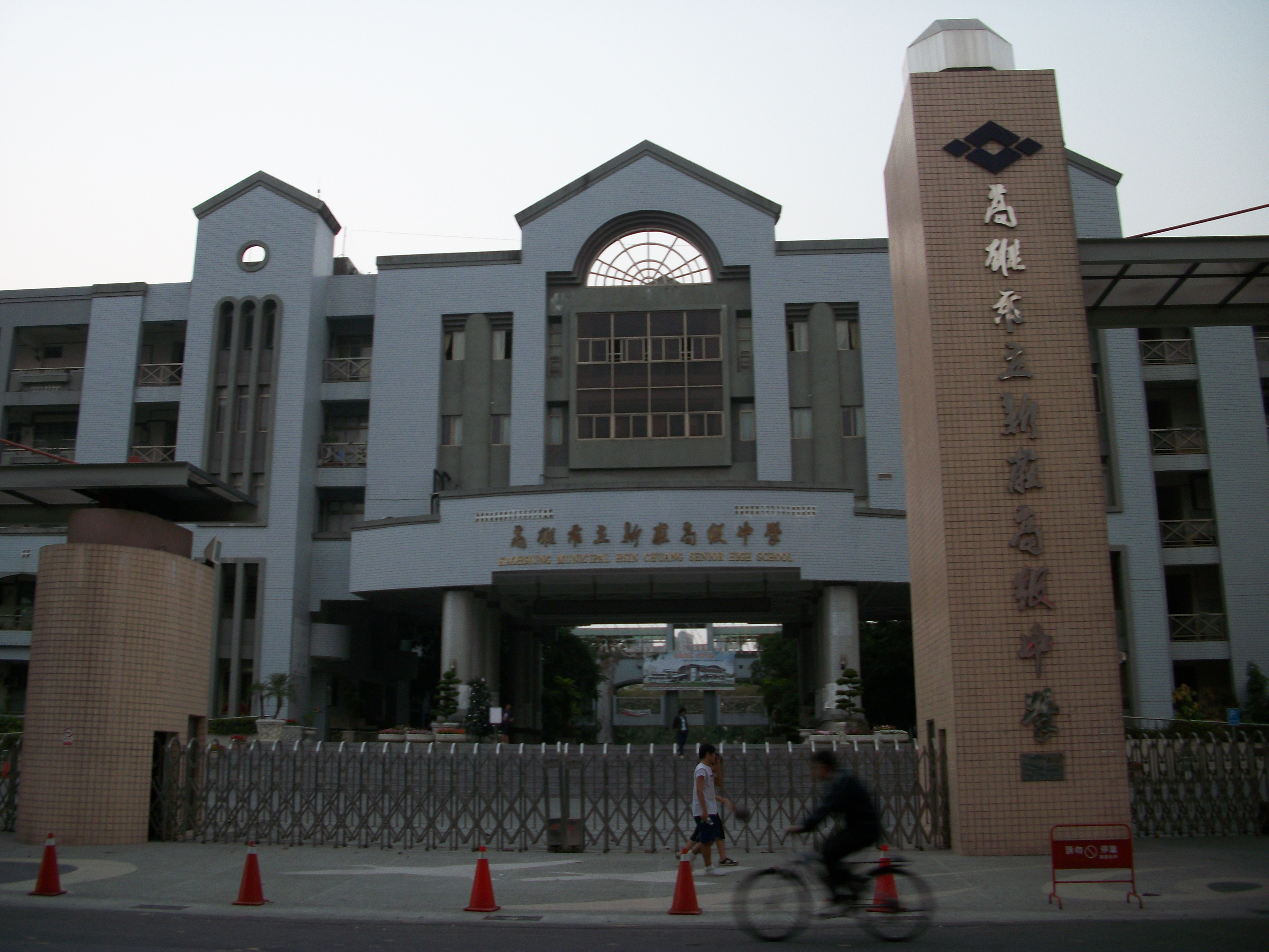 Sinzhuang Secondary School in Kaohsiung City.